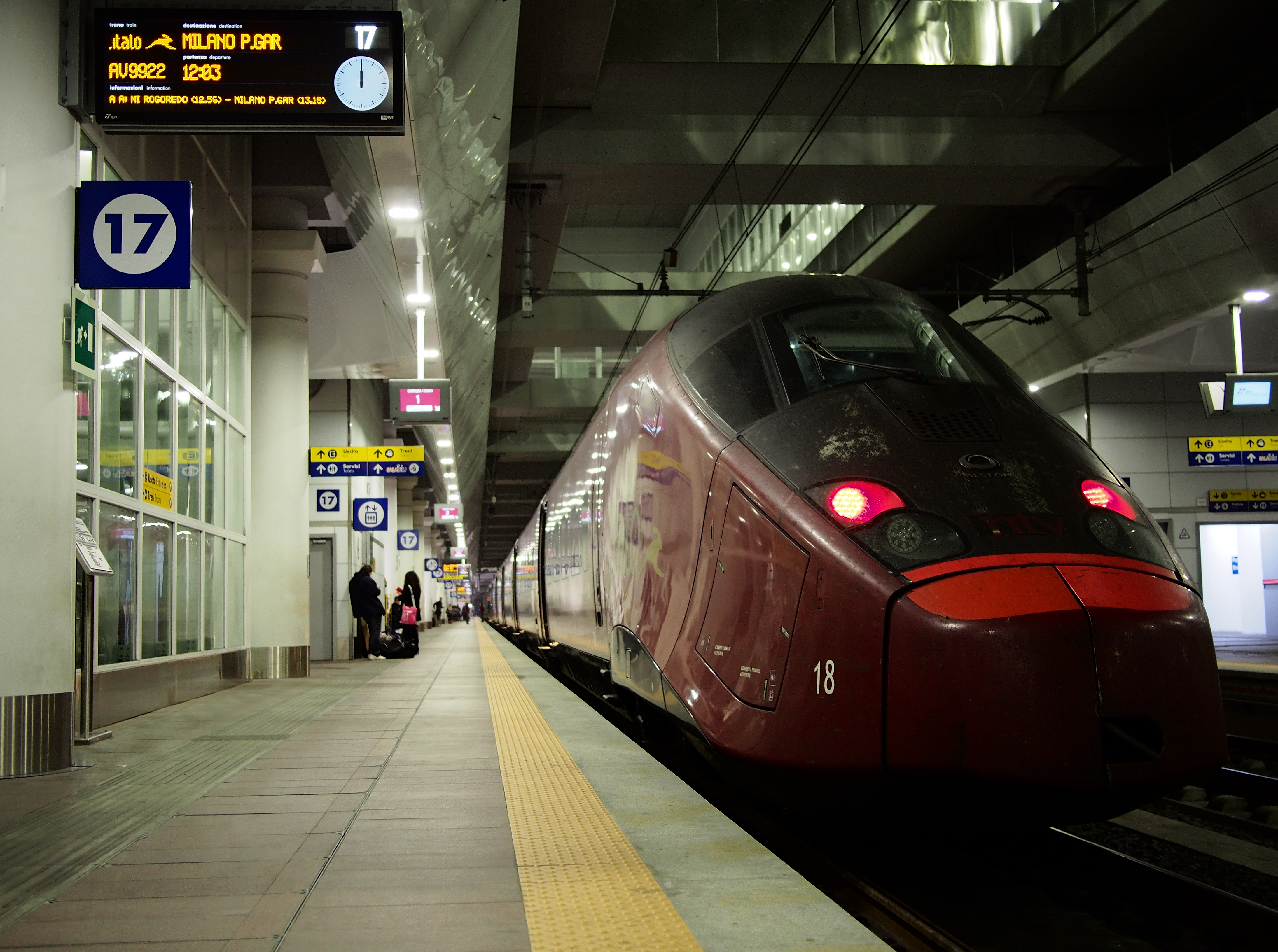 Italo train (ETR 575) at Bologna railway station. Bologna, Italy.